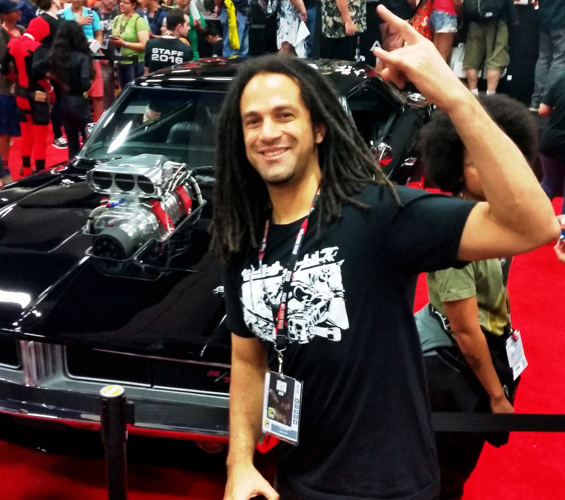 Felipe Smith at the SDCC 2016 announcement of his character's appearance in Marvel's Agents of Shield TV Show and revealing of the Robbie Reyes' Dodge Charger